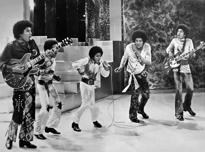 Photo from the Jackson 5's first television special in 1971.